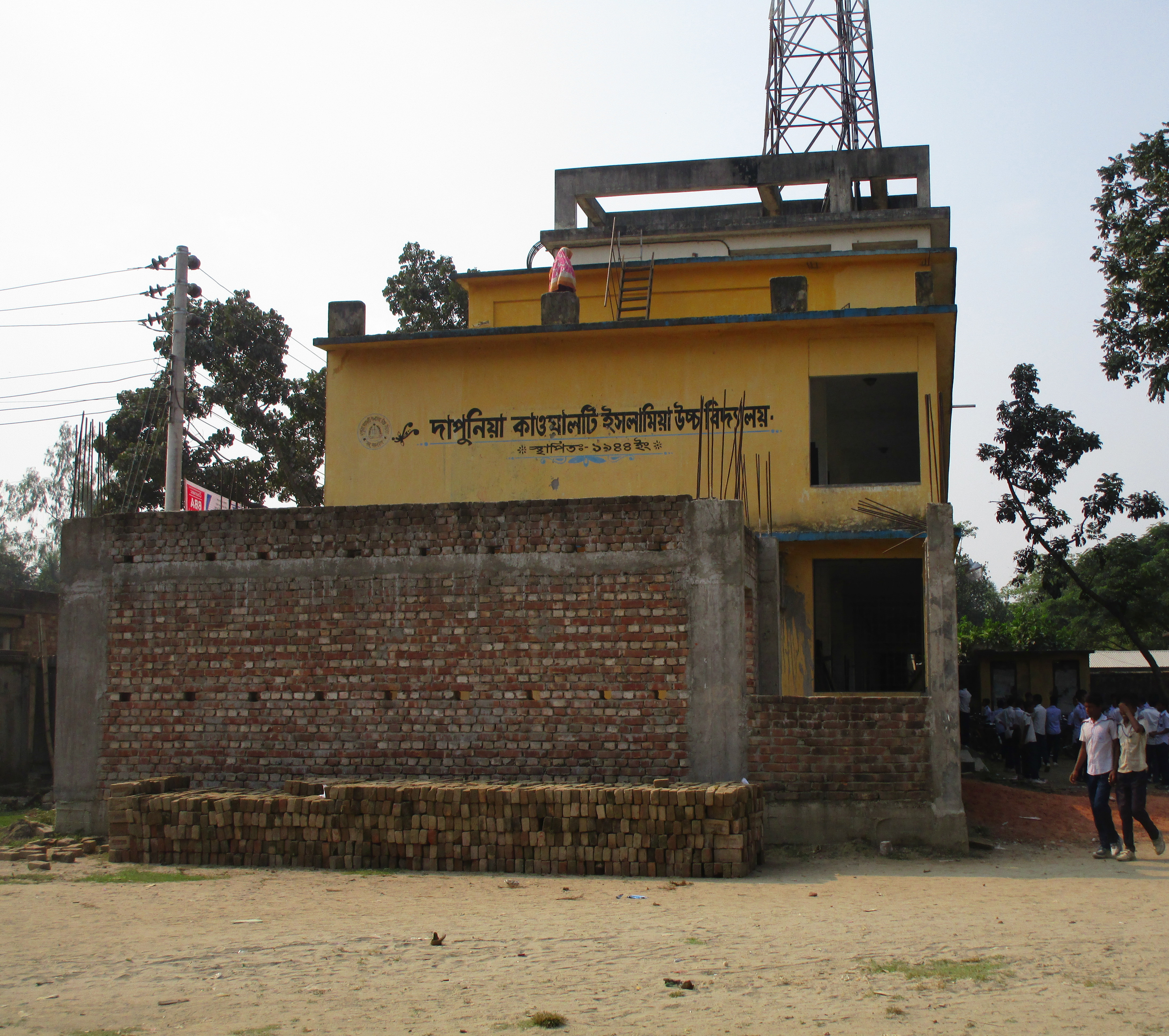 A building of Dapunia Kawalti Islamia High School, Dapunia, Mymensingh.